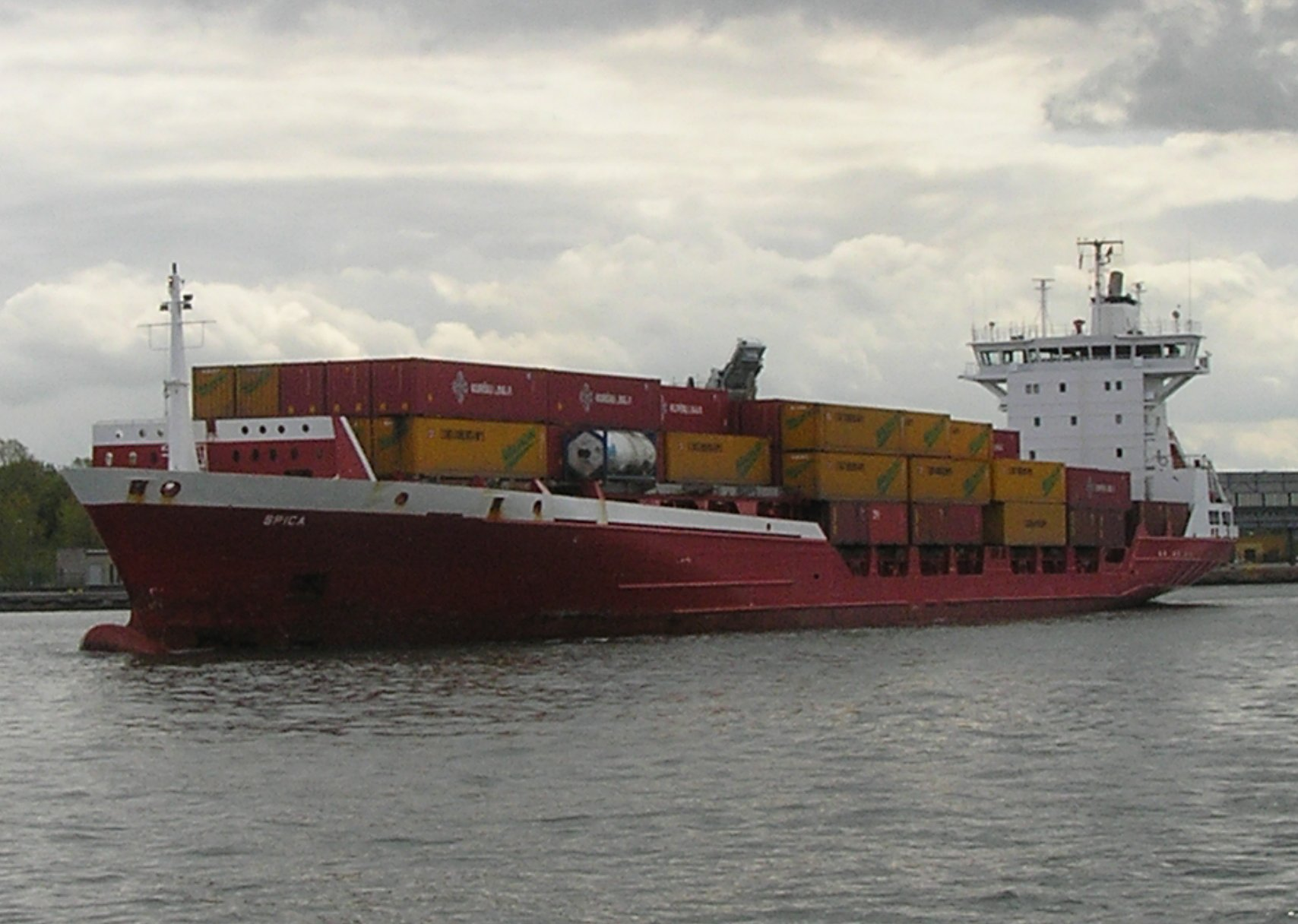 Container ship MS Spica in the Port of Gdańsk IMO Number: 9083043 MMSI Number: 211217360 Callsign: DIPS Length: 151 m Beam: 20 m